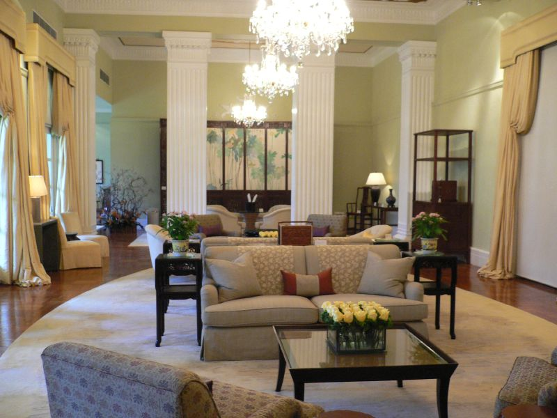 Government House 香港禮賓府